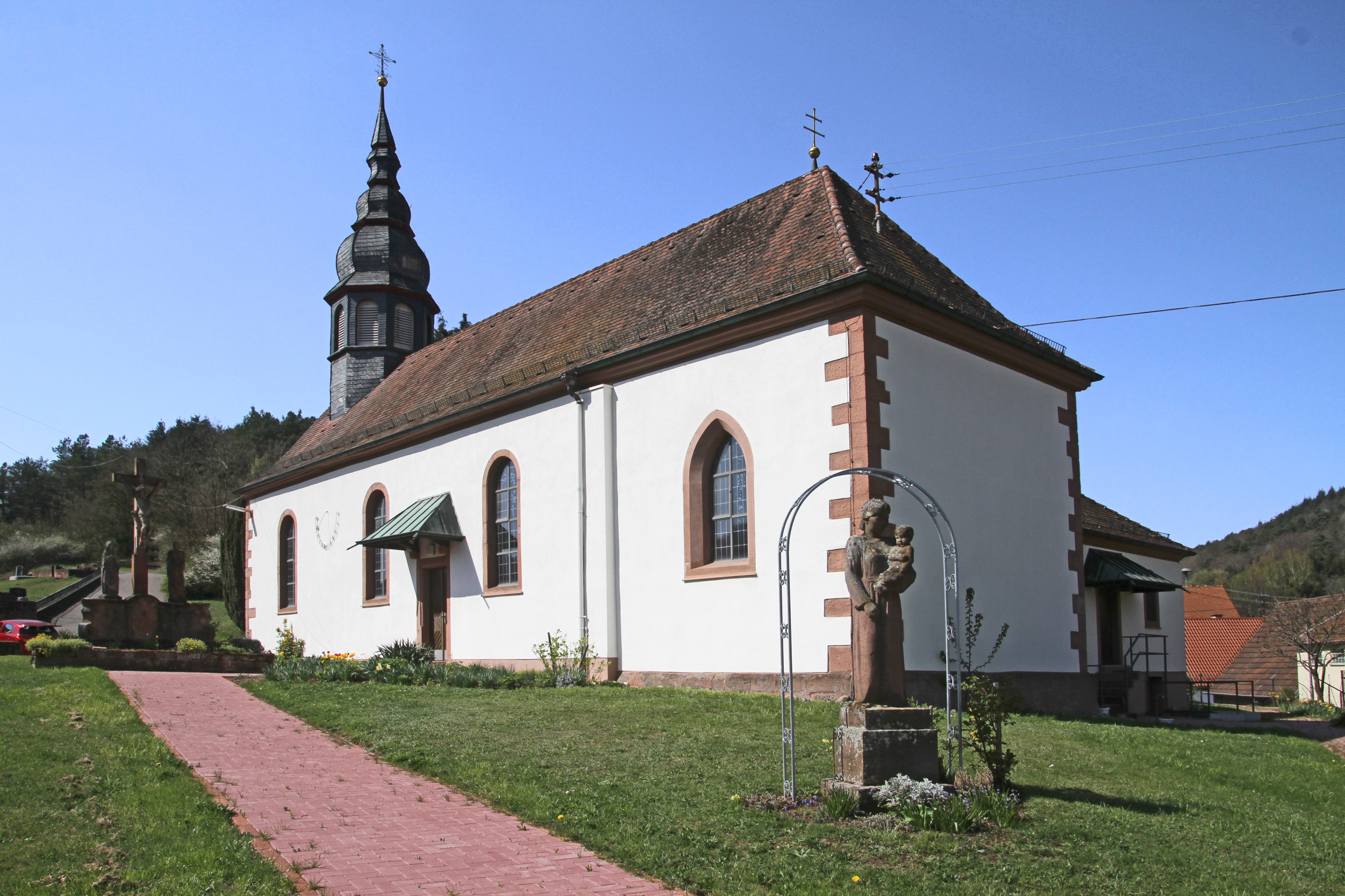 Church of Saint Wendelin in Waldhambach.